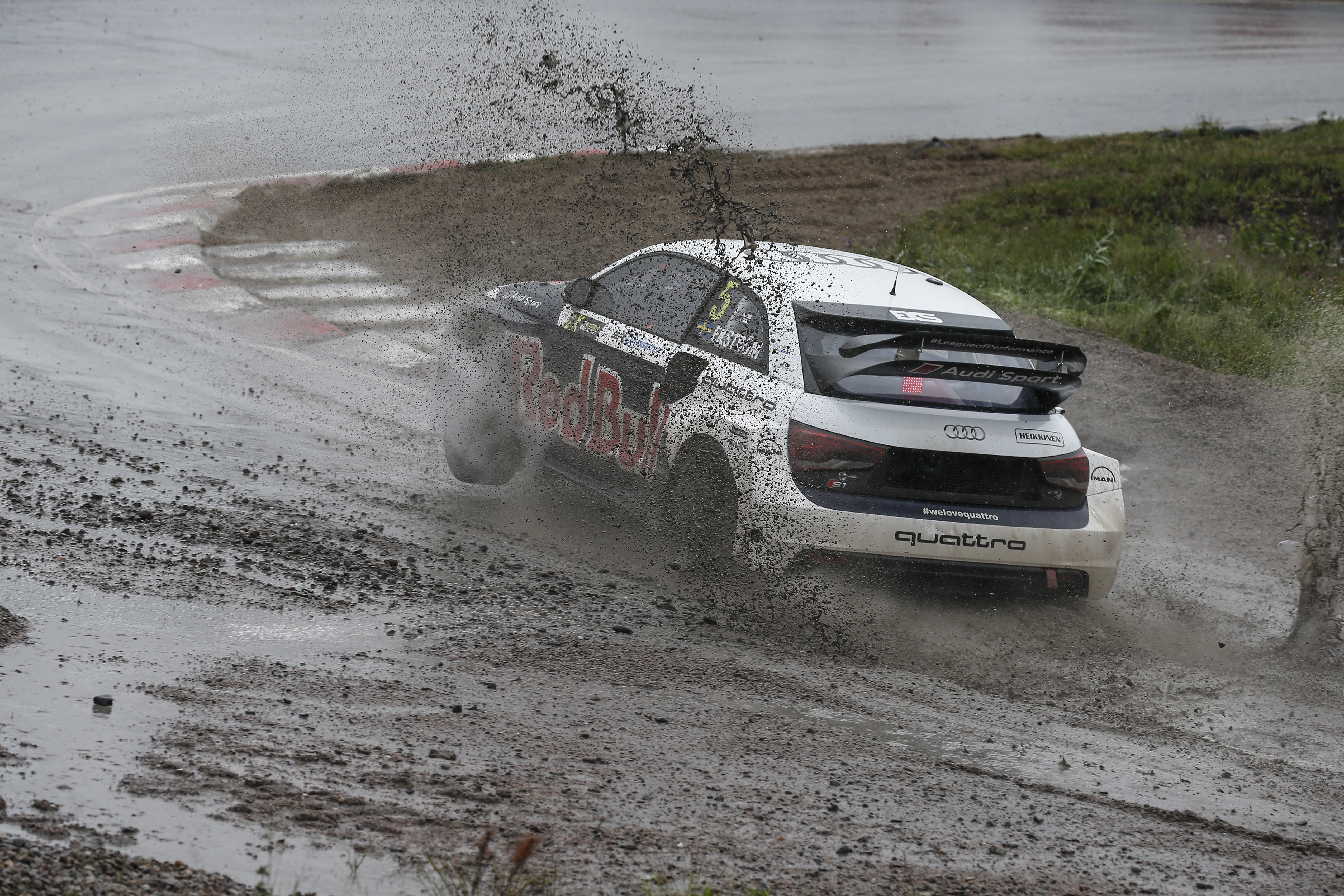 2016 FIA World Rallycross Championship / Round 06, Holjes Sweden 1/7-3/7-2016 // Worldwide Copyright: Tony Welam/EKS/McKlein